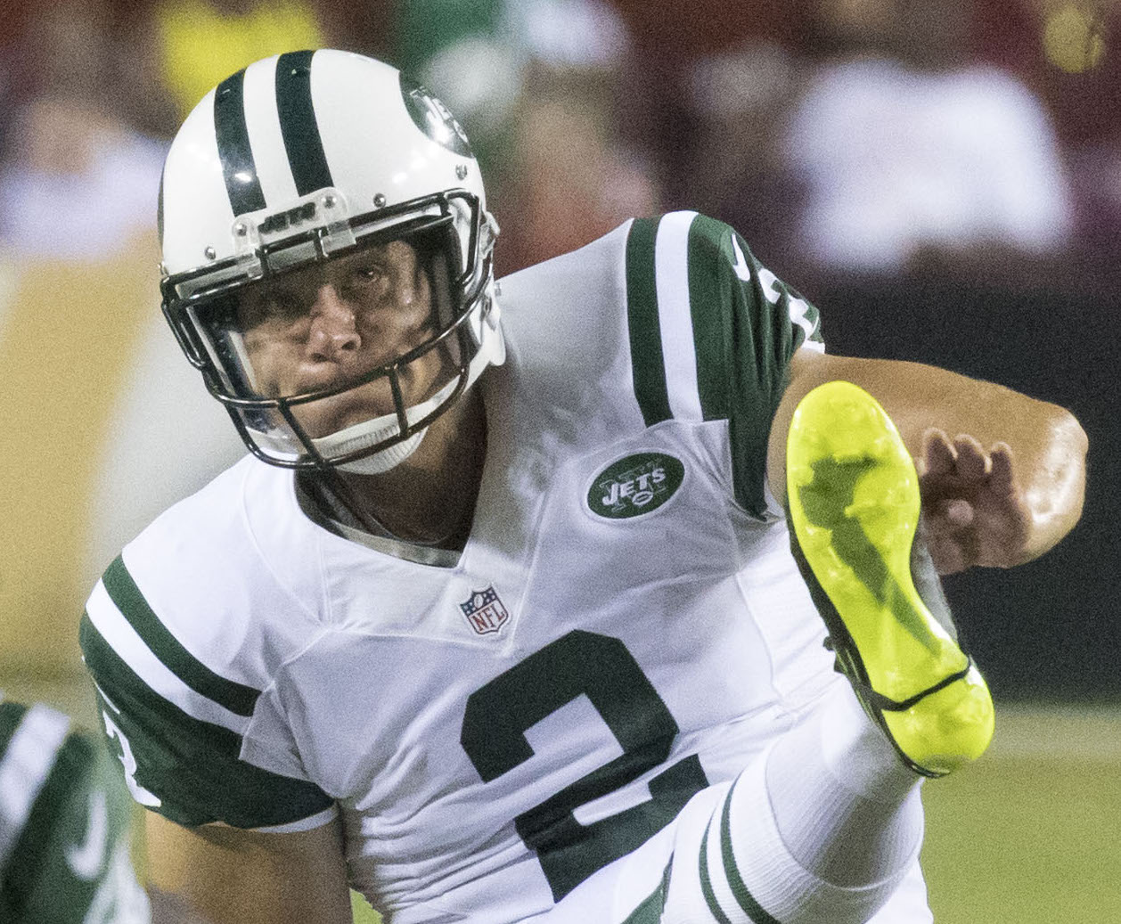 New York Jets placekicker, Nick Folk, playing against the Washington Redskins in a preseason game on August 19, 2016.